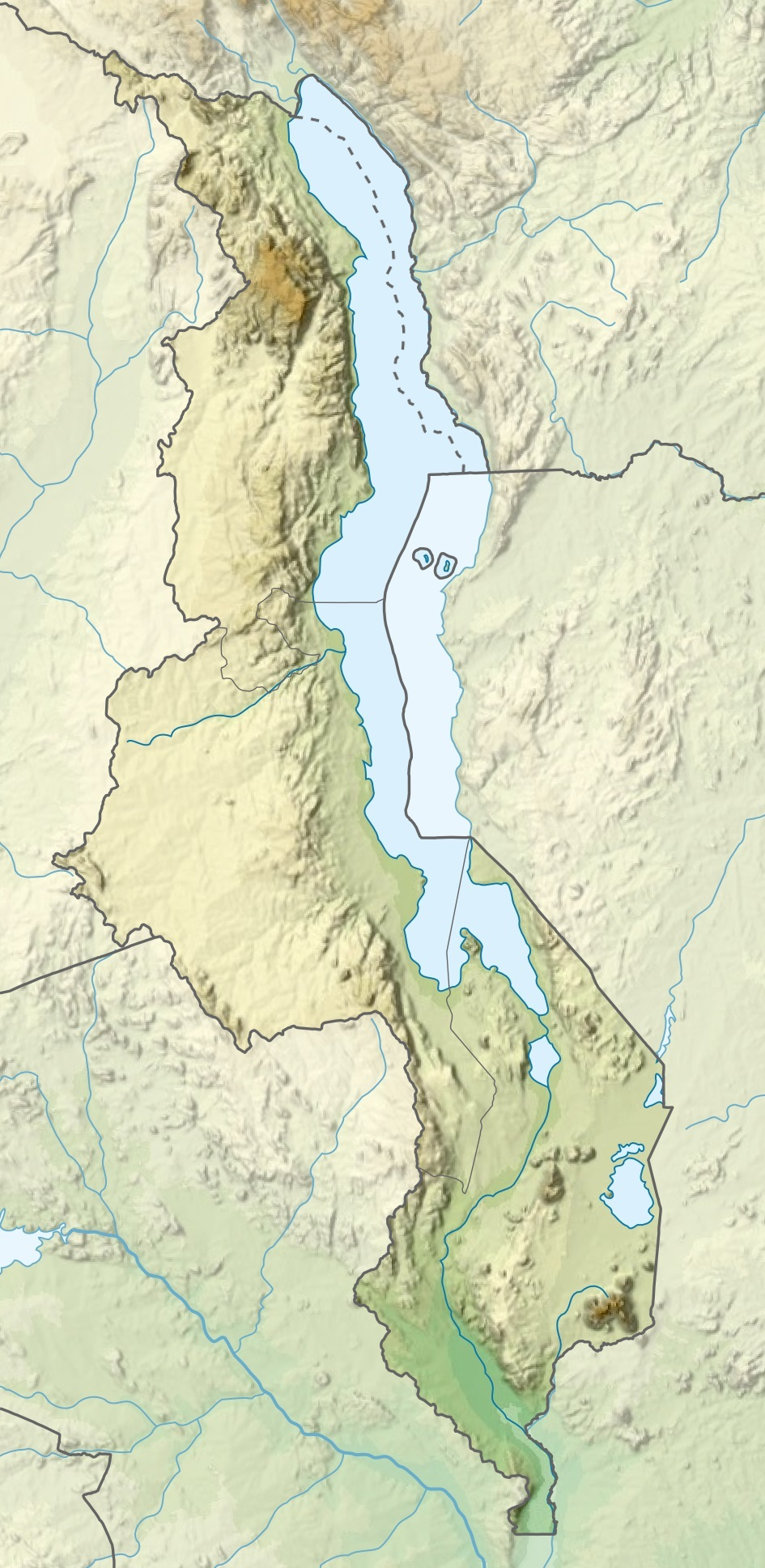 Location map of Malawi Equirectangular projection. Geographic limits of the map: N: 9.1° S S: 17.3° S W: 32.4° E E: 36.4° E